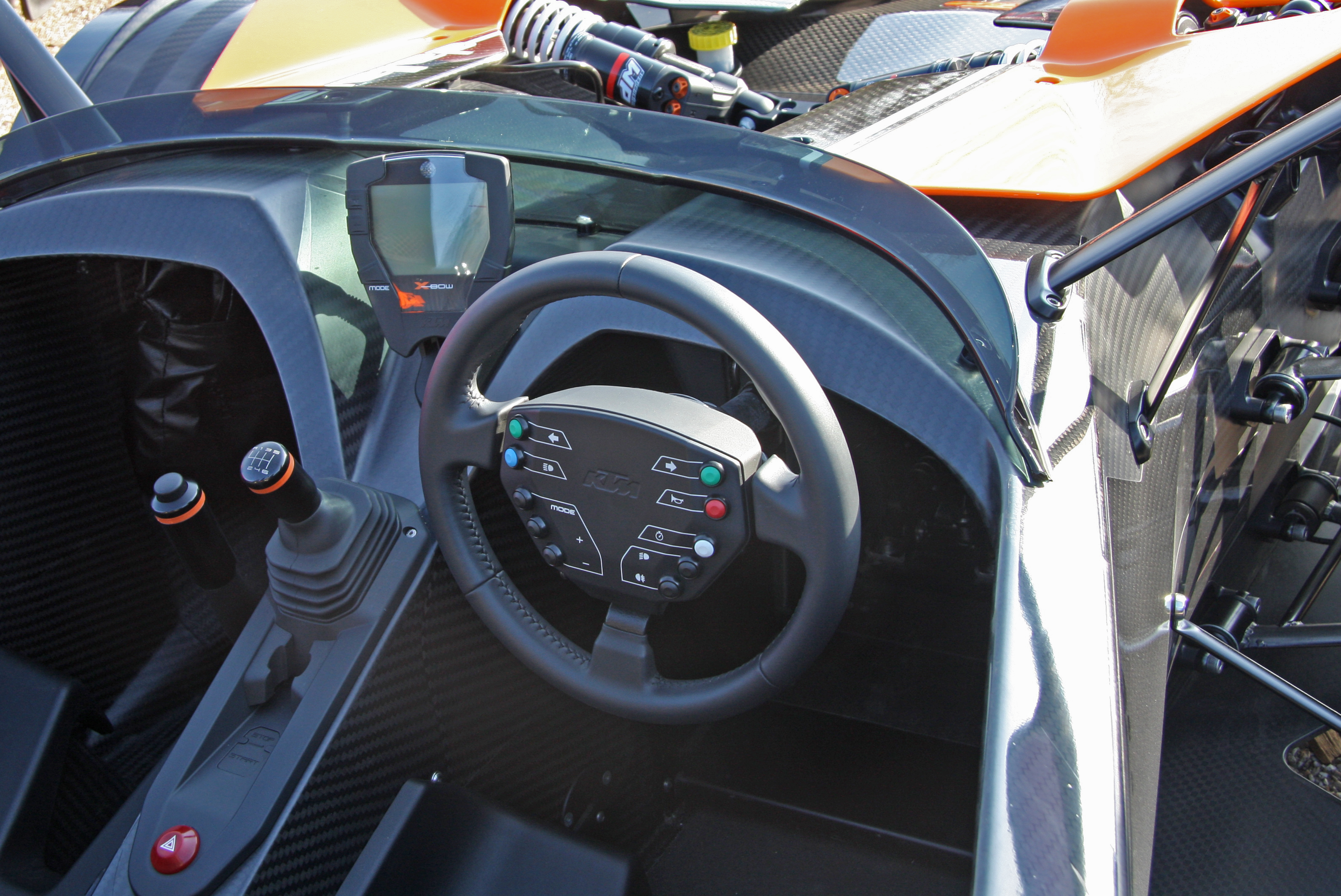 KTM X-Bow interior.